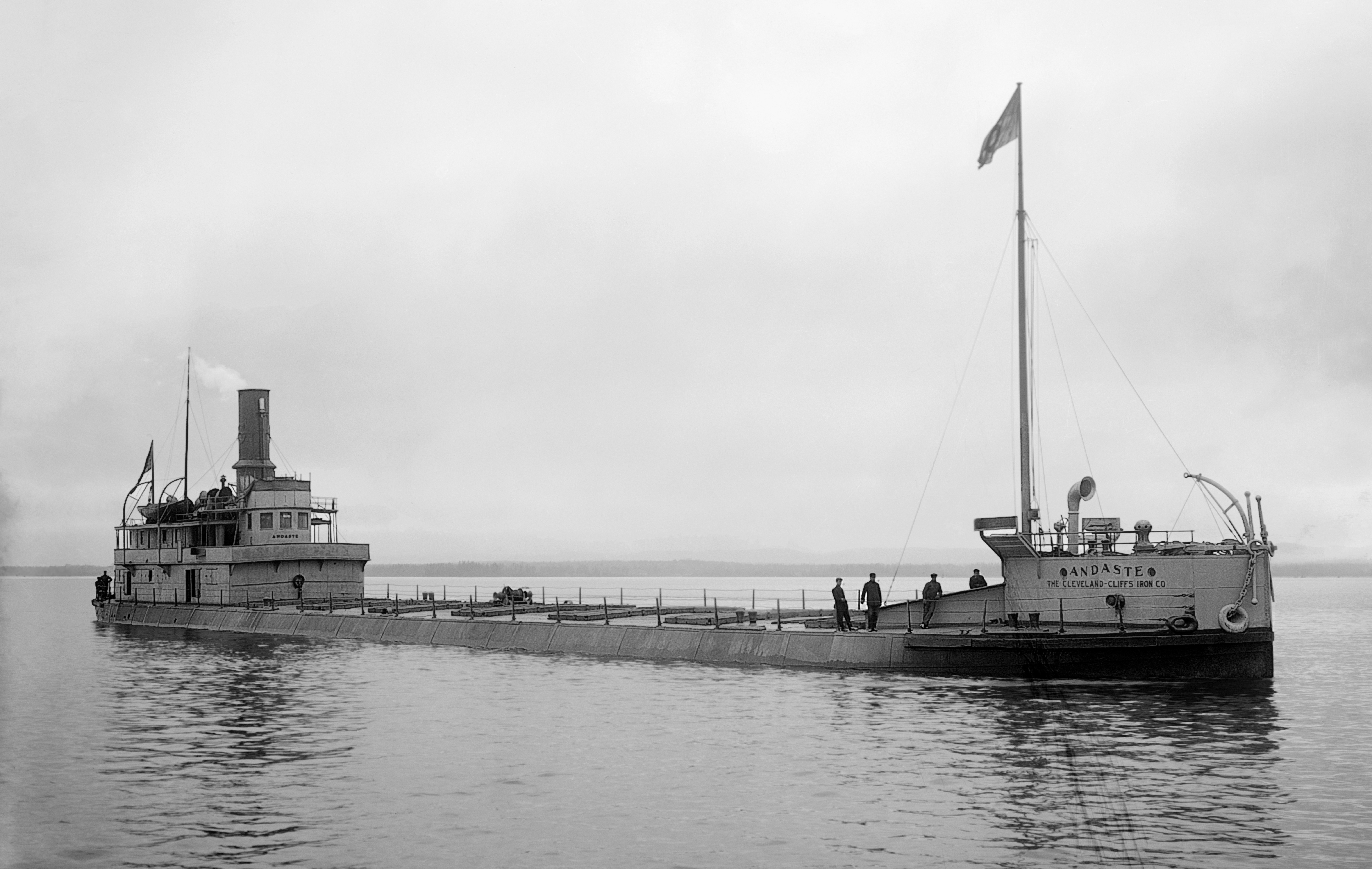 Steamer SS Andaste loaded, circa 1900 -1910